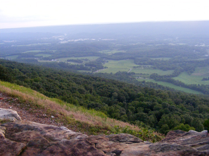 Picture of Chattanooga Valley, containing the small city of Flintstone, Georgia. Taken near Chattanooga, Tennessee.